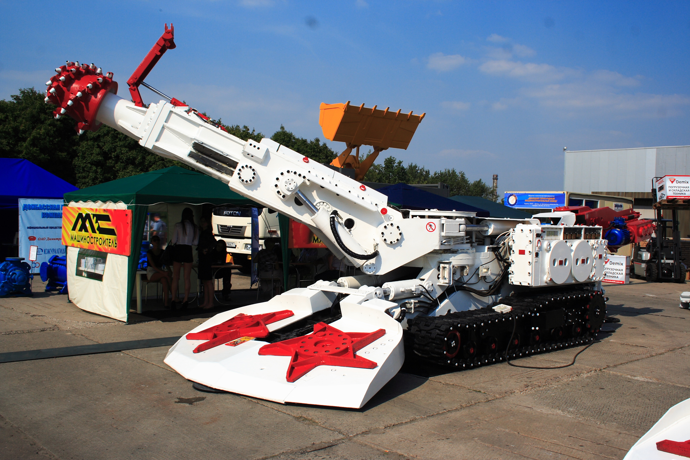 Coal tunneling miner on Coal/Mining 2012 exhibition in Donetsk